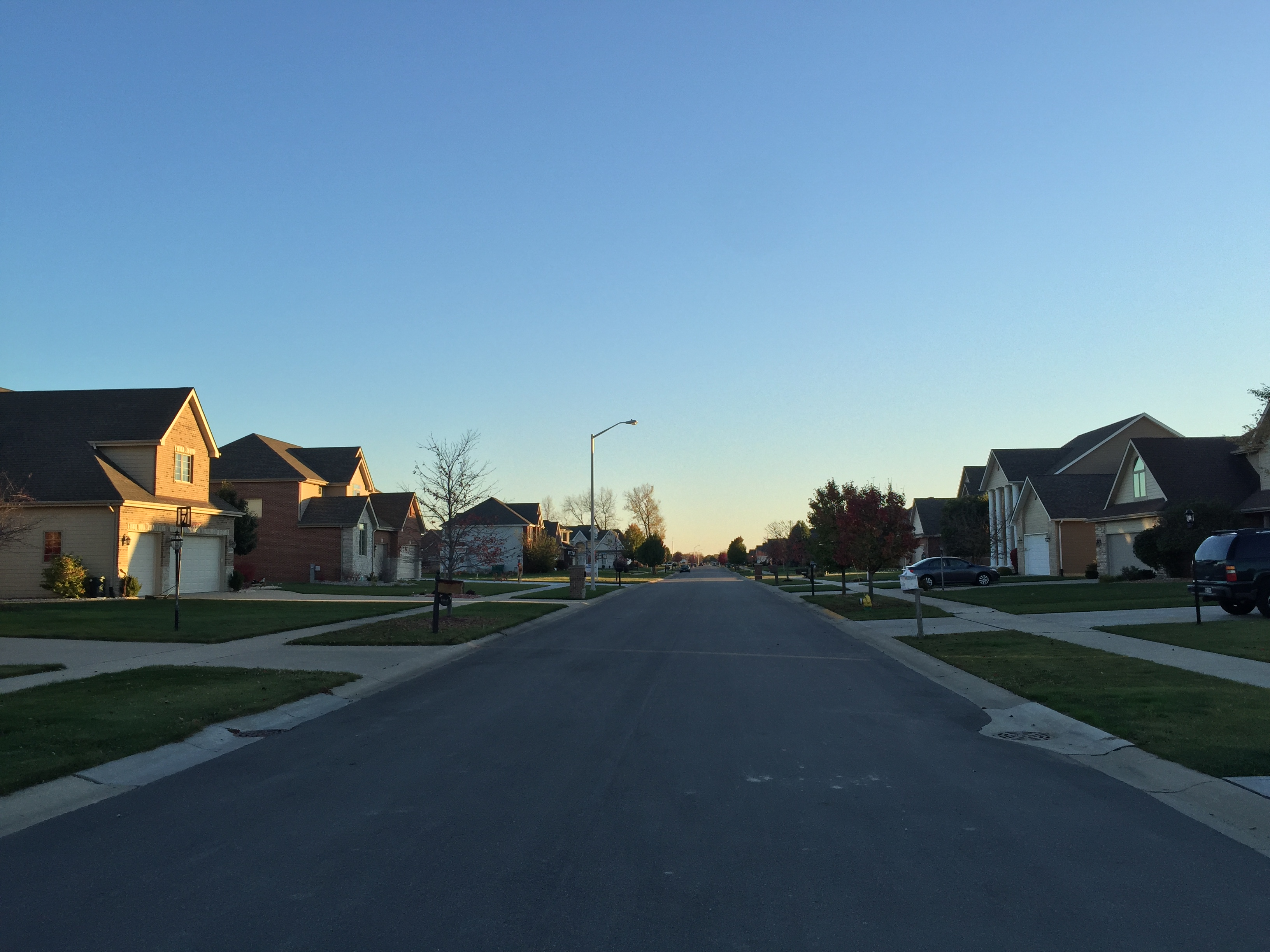 West Lakes neighborhood in Munster, Indiana.